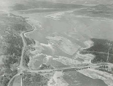 Aerial view of Kettle Falls, partially exposed during drawdown in April 1969. The large drawdowns during construction of the third powerhouse enabled archaeologists to reach previously inundated sites, including some particularly significant ones at Kettle Falls.